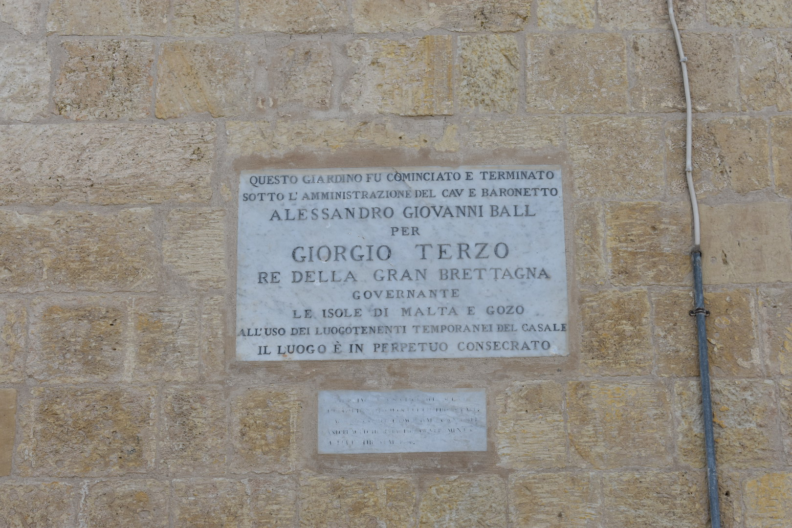 Żabbar